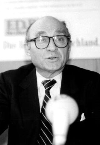 ADN-Thomas Uhlemann-27.10.90-Berlin: Lambsdorff bei Berliner Liberalen - FDP-Chef Otto Graf Lambsdorff sprach auf dem ersten gemeinsamen Wahlprogrammparteitag der Berliner Liberalen und gab anschließend eine Pressekonferenz. Er sagte, daß die Hauptstadt eine große Zukunft haben werde, aber es dürfte keine großdeutsche Zukunft sein. Berlins Liberale, die Regierungsverantwortung tragen sollen, trafen eine Koalitionsausage zugunsten der SPD.